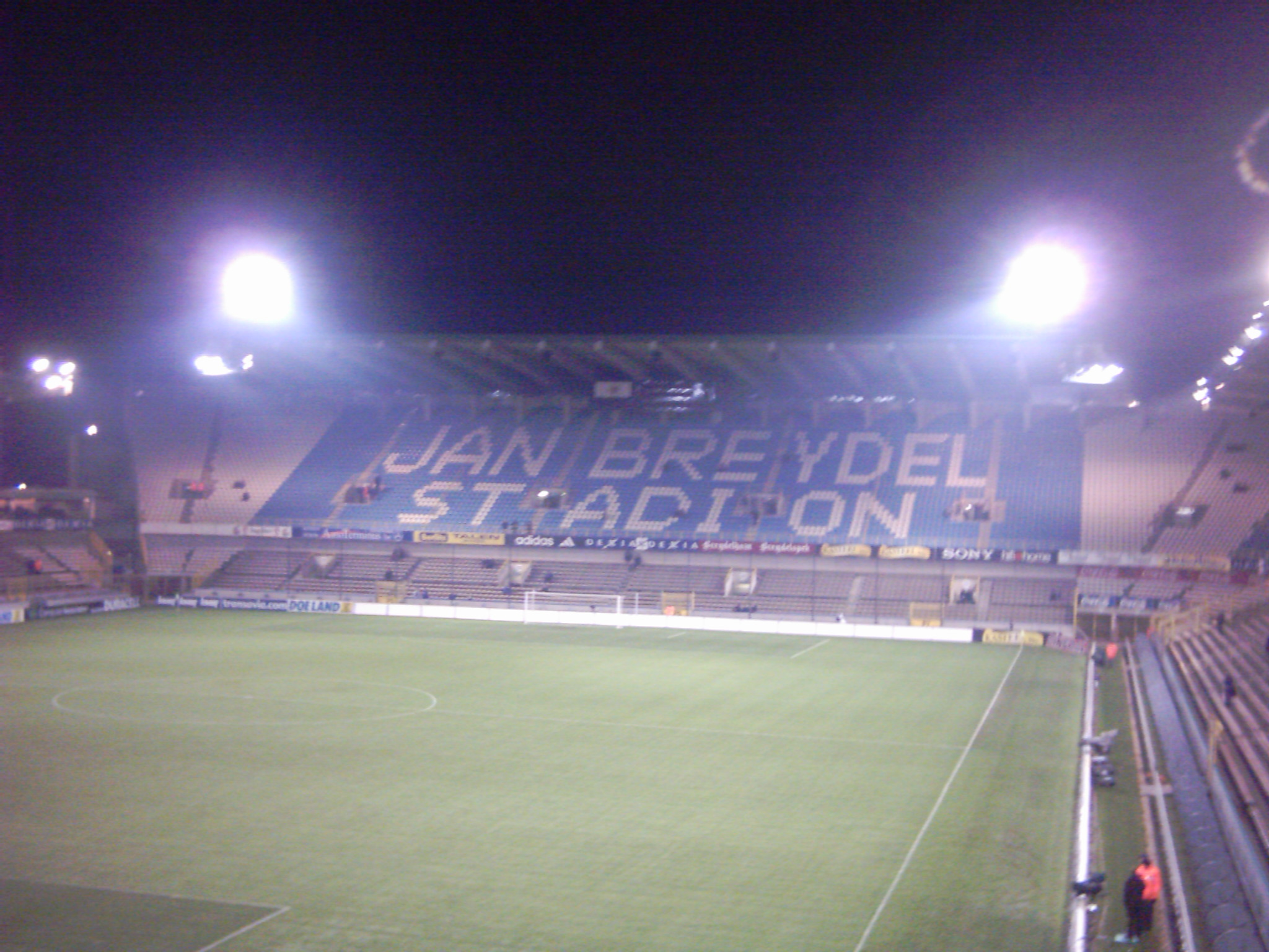 Club Brugge UEFA Cup 2004-2005